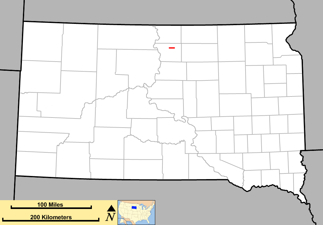 Route (in red) of South Dakota Higway 130 in the United States.